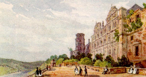 historic views of Heidelberg, Germany